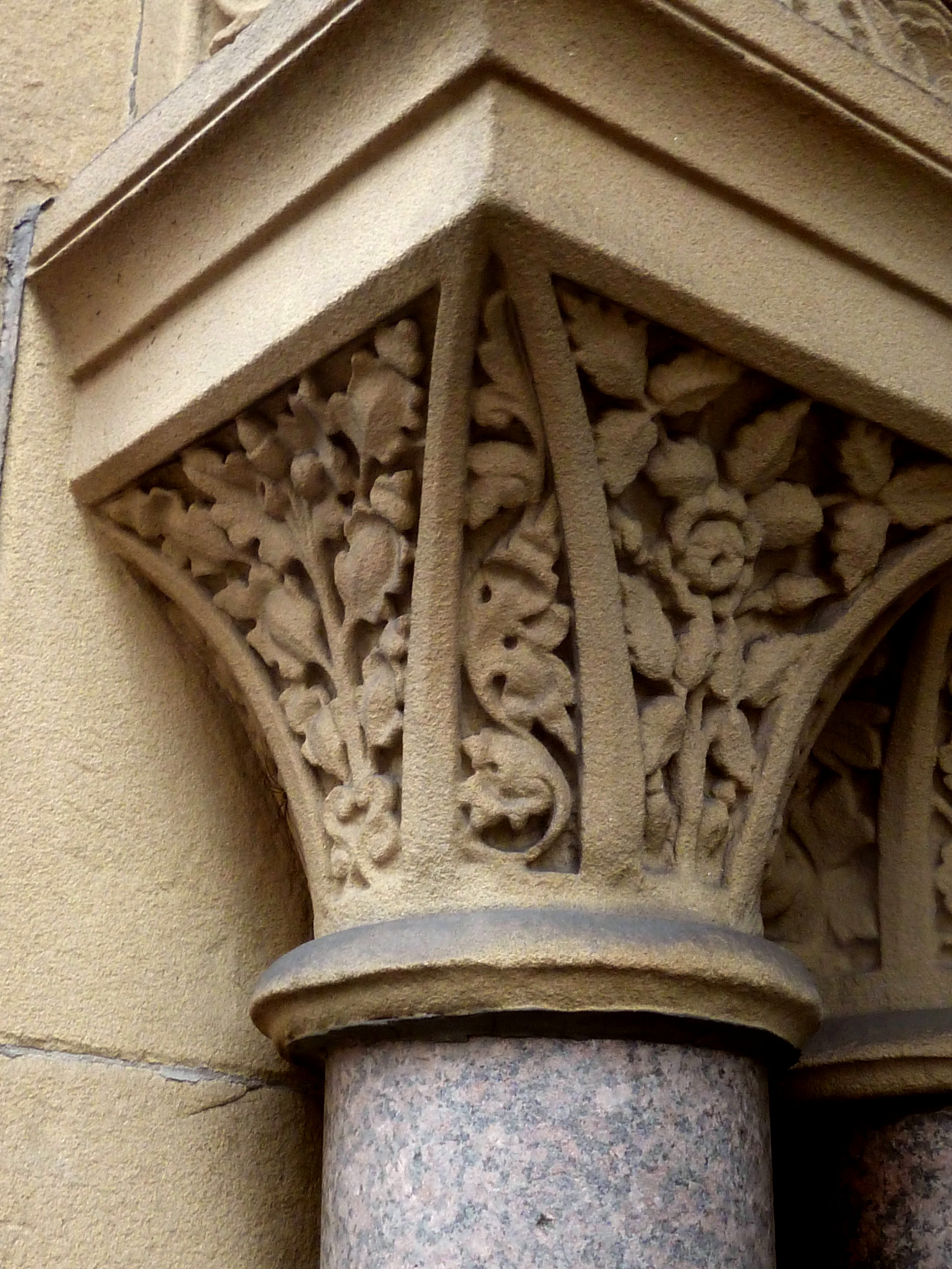 Hepper House, East Parade, Leeds, West Yorkshire, England. Designed for auctioneers Hepper and Sons, by George Corson, and completed in 1863. Carving by Mawer & Ingle.